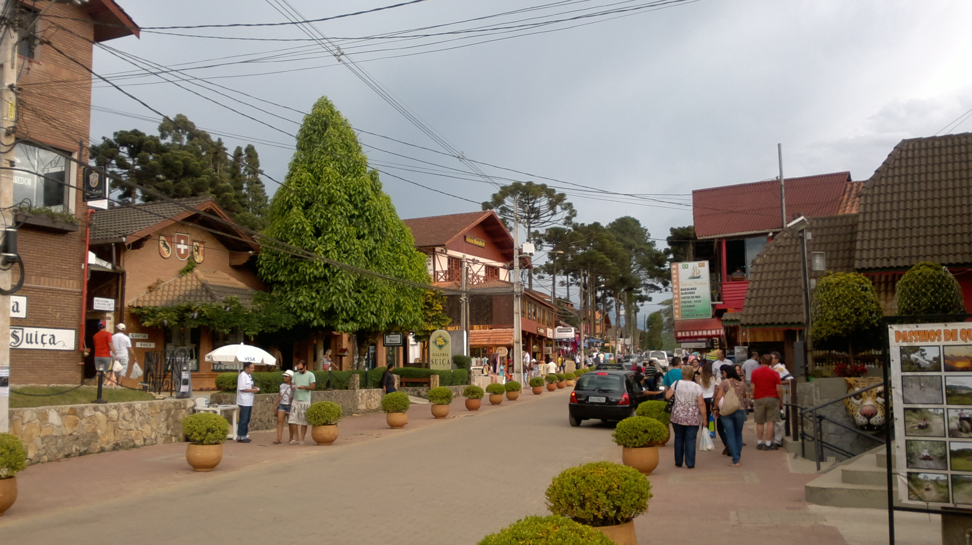 Monte Verde Village 02